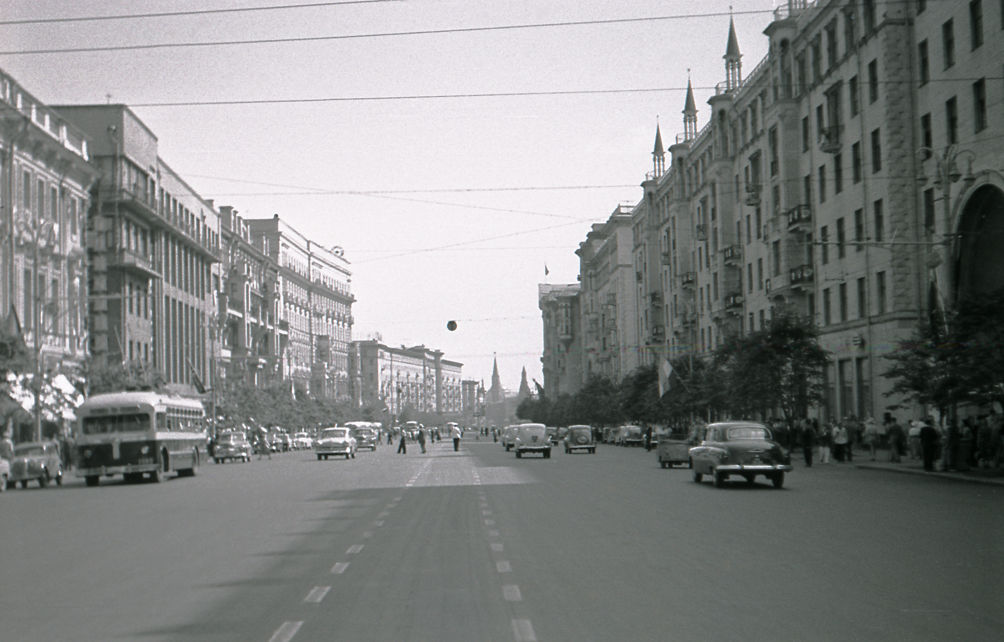 Gorky Street 1957 (renamed 1990 as 'Twerskaya Street') - in direction of the Kremlin. - You may want to have a look at my website (in German)